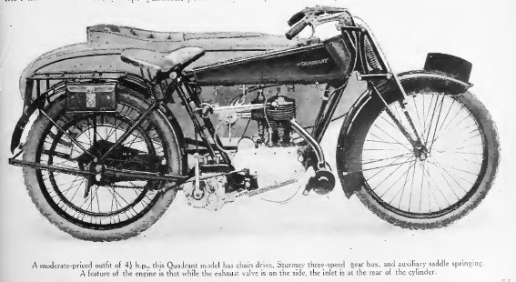 1921 565cc Quadrant Combination; bore 87mm, stroke 95mm (565cc) four-stroke single with the normal arrangement for Quadrant of exhaust valve at the side of the engine, and inlet valve at the rear. This type of machine was the mainstay of the Quadrant motorcycle firm.